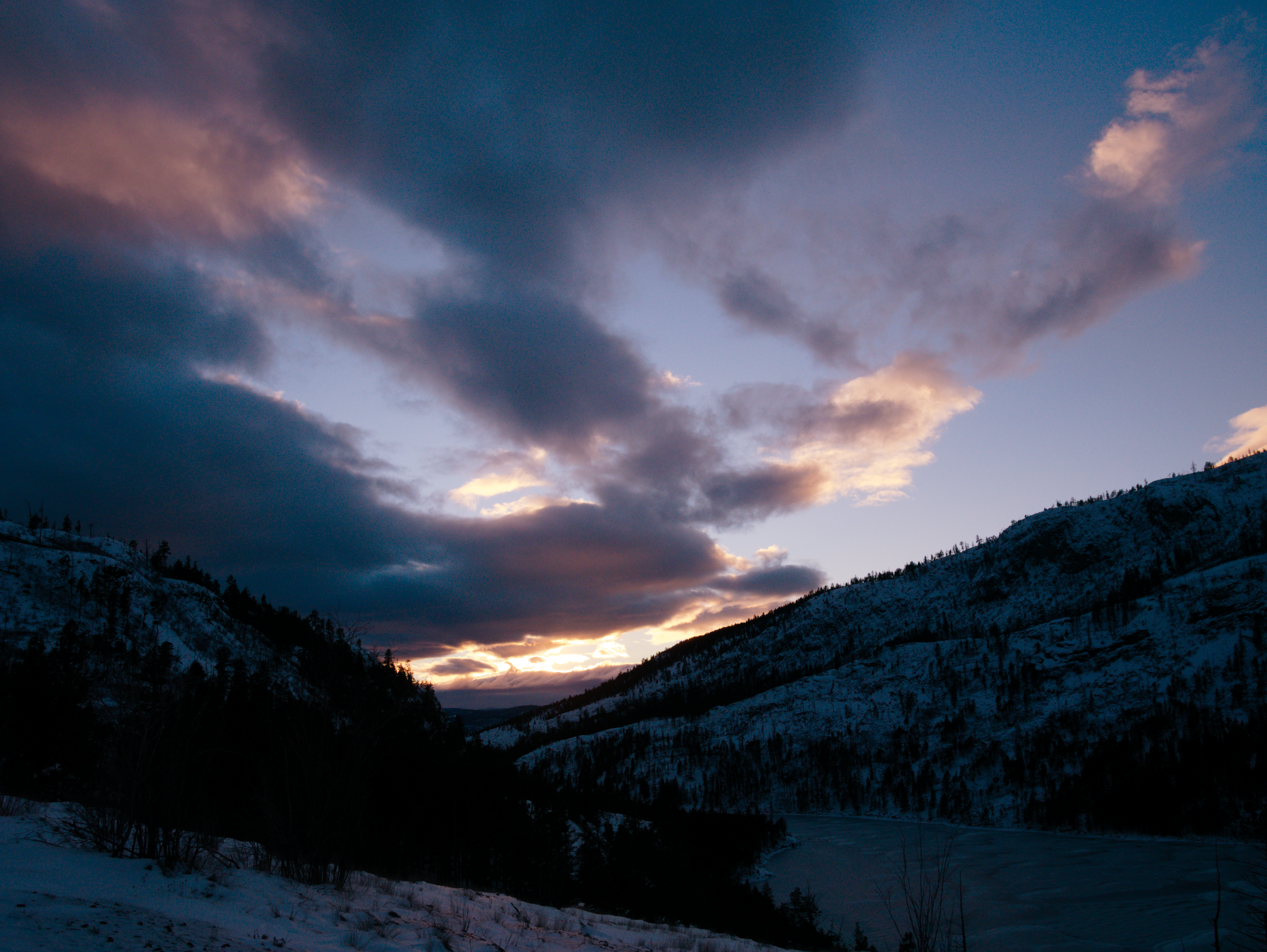 Winter sun sets over Rose Valley, British Columbia, Canada